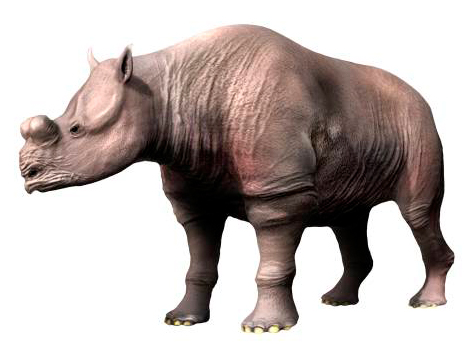 Life reconstruction of Protitanops curryi